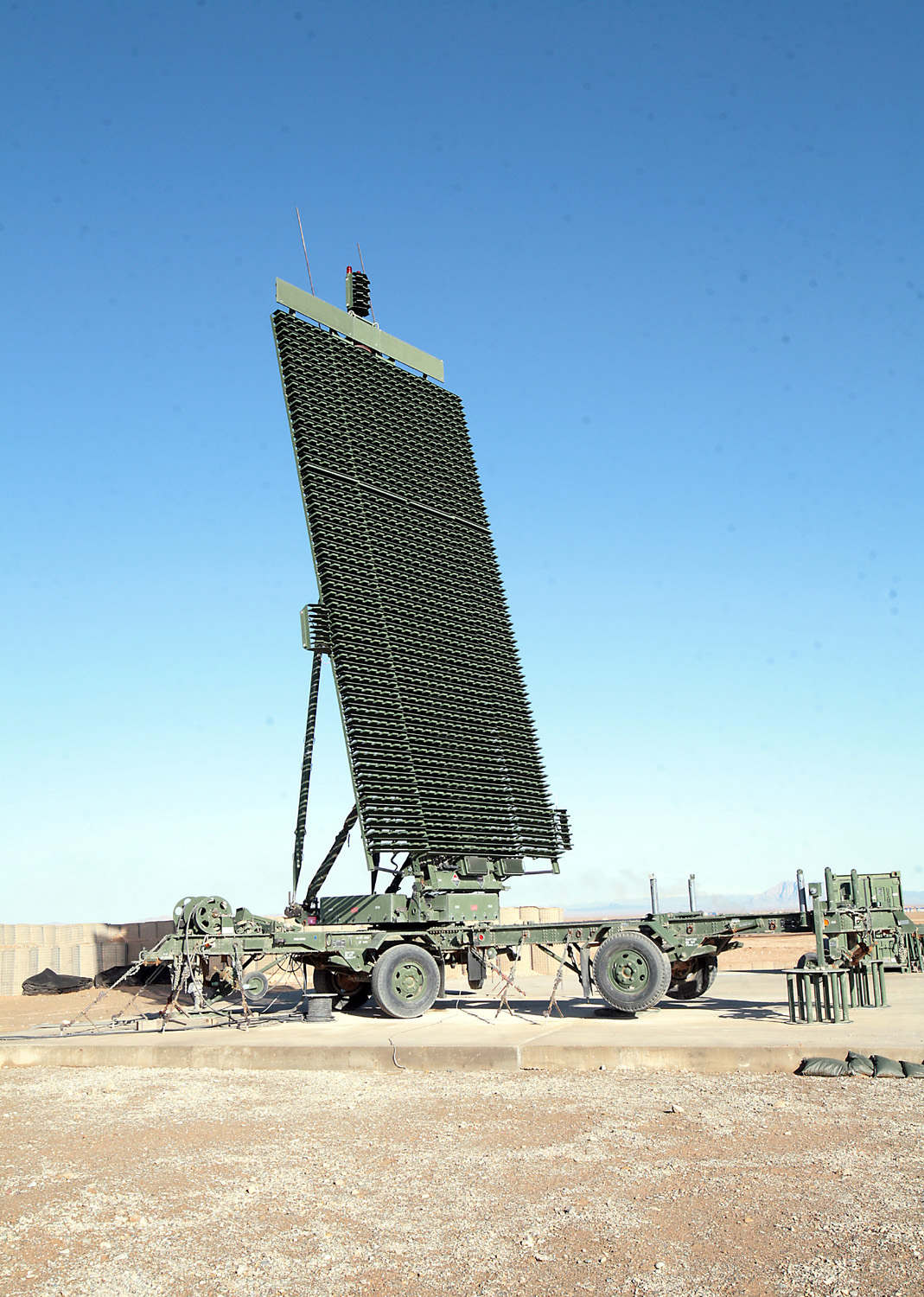 The AN/TPS-59 (V)3 Ballistic Missile Defense Radar is used by the U.S. Marine Corps in Afghanistan.